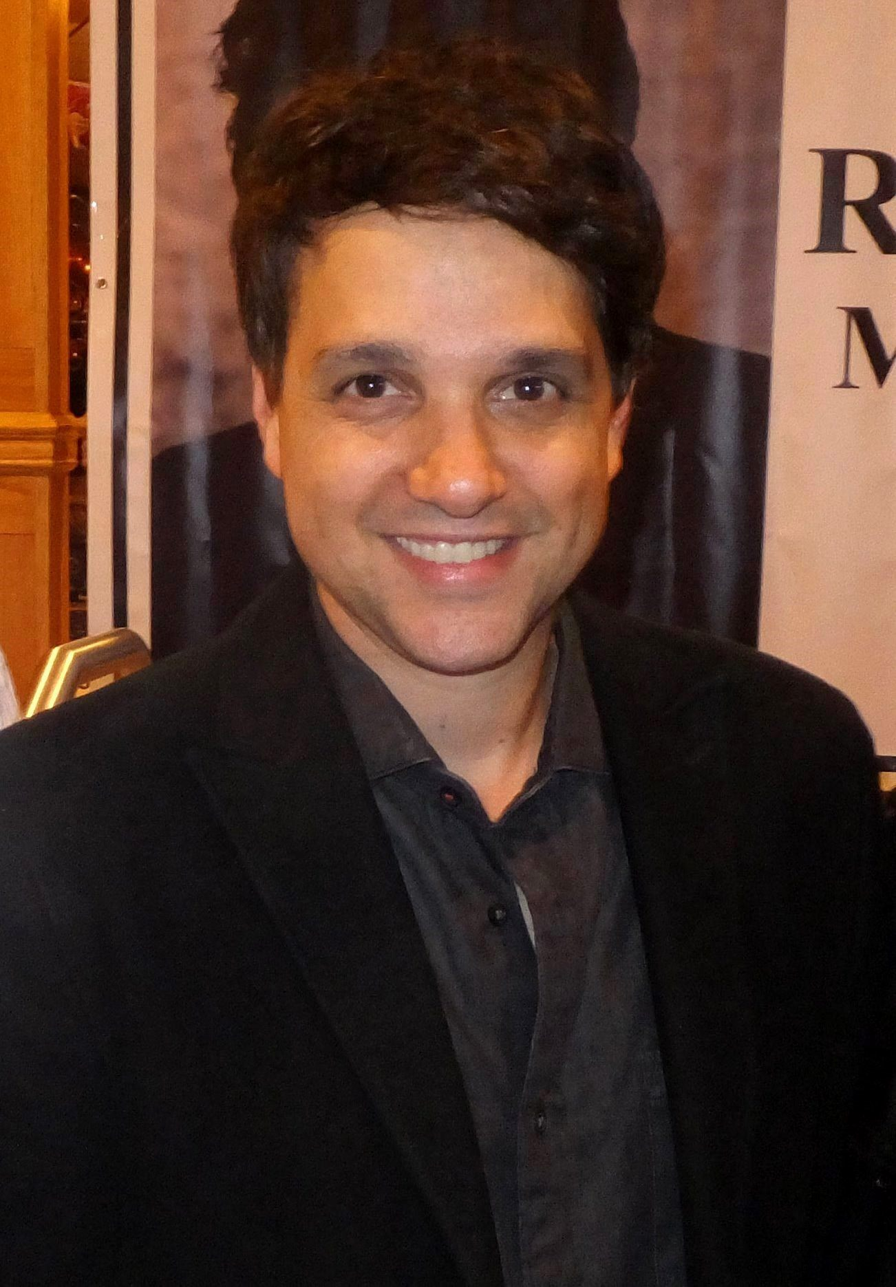 Ralph Macchio at the Chiller Theatre Expo at the Sheraton Parsippany Hotel in Parsippany, New Jersey, October 26, 2013.